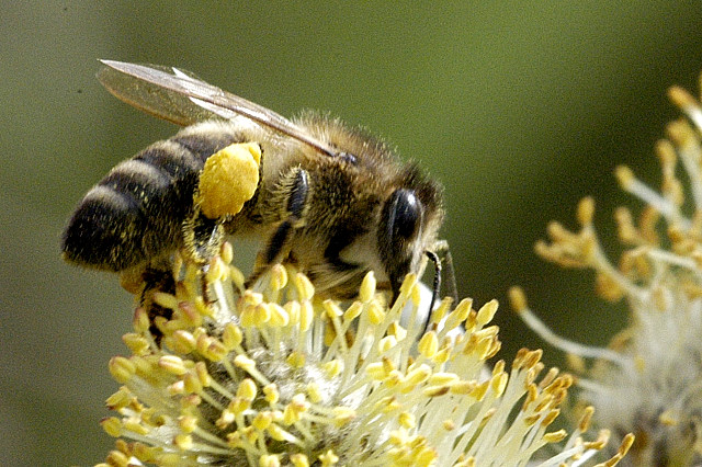 Apis mellifera from Commanster, Belgian High Ardennes .